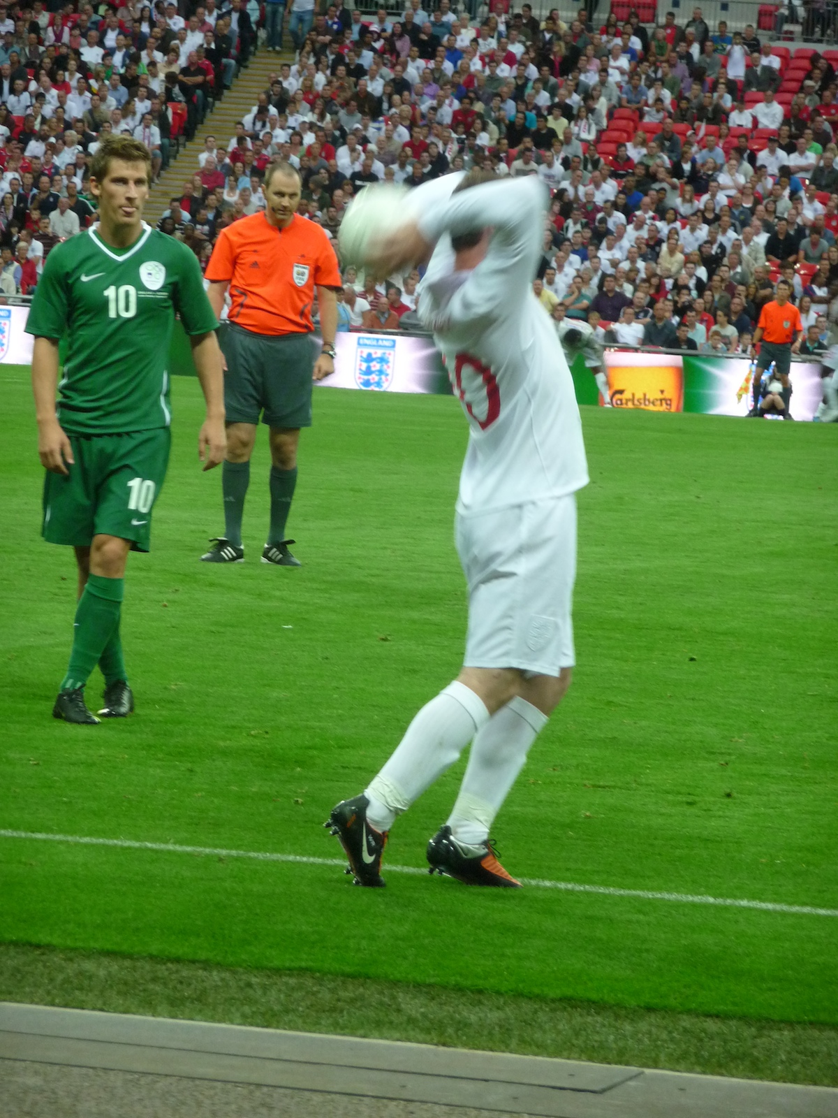 England - Slovenia friendly football match in 2009